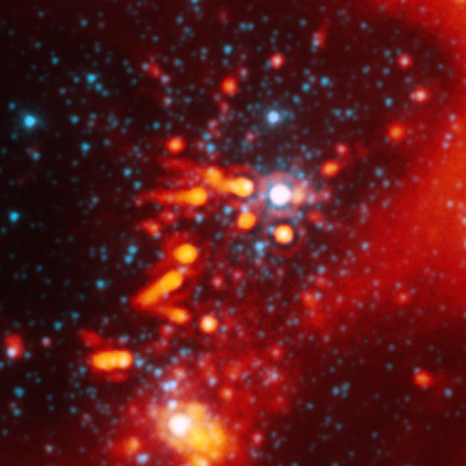 This image from NASA's Spitzer Space Telescope shows the nasty effects of living near a group of massive stars: radiation and winds from the massive stars (white spot in center) are blasting planet-making material away from stars like our sun. The planetary material can be seen as comet-like tails behind three stars near the center of the picture. The tails are pointing away from the massive stellar furnaces that are blowing them outward. The picture is the best example yet of multiple sun-like stars being stripped of their planet-making dust by massive stars. The sun-like stars are about two to three million years old, an age when planets are thought to be growing out of surrounding disks of dust and gas. Astronomers say the dust being blown from the stars is from their outer disks. This means that any Earth-like planets forming around the sun-like stars would be safe, while outer planets like Uranus might be nothing more than dust in the wind. This image shows a portion of the W5 star-forming region, located 6,500 light-years away in the constellation Cassiopeia. It is a composite of infrared data from Spitzer's infrared array camera and multiband imaging photometer. Light with a wavelength of 3.5 microns is blue, while light from the dust of 24 microns is orange-red.